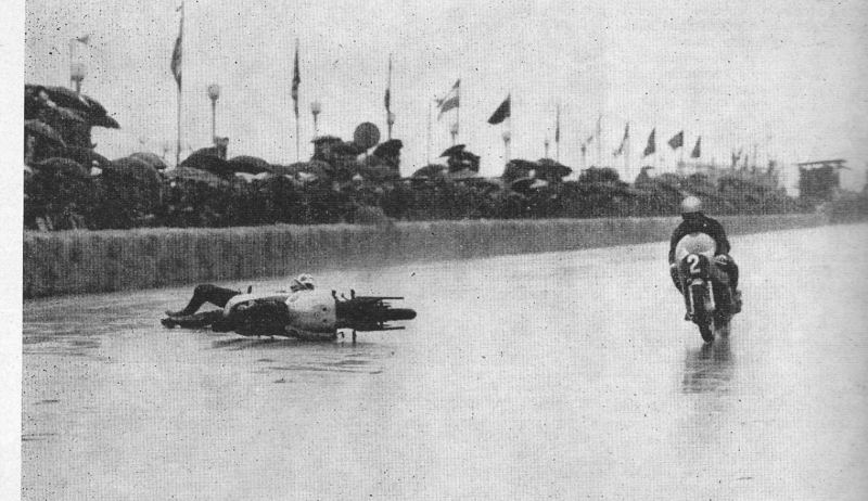 Renzo Pasolini (#2) e Phil Read in Rimini. 350cc class, Temporada Romagnola, 1970